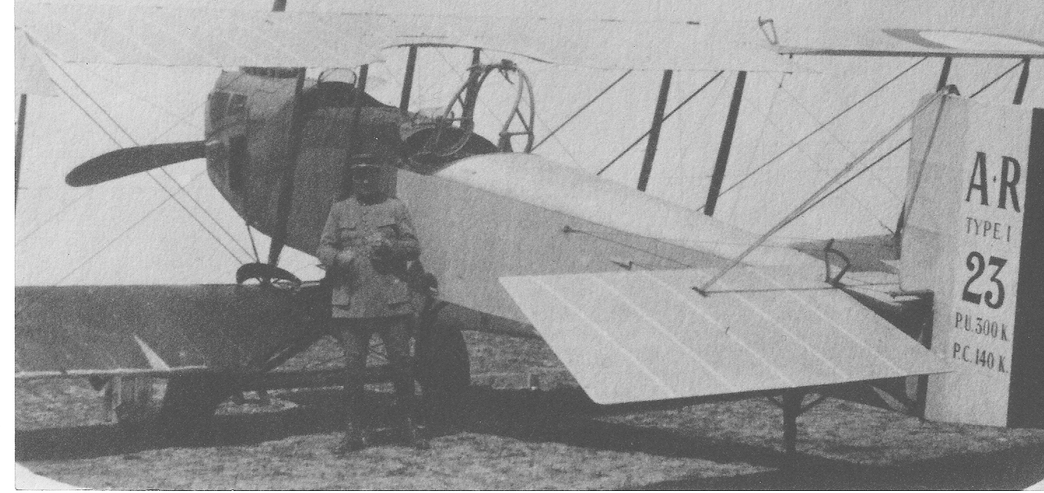 A french surveillance aircraft Dorand AR.1 of the military aviation school of Le Crotoy in 1916.